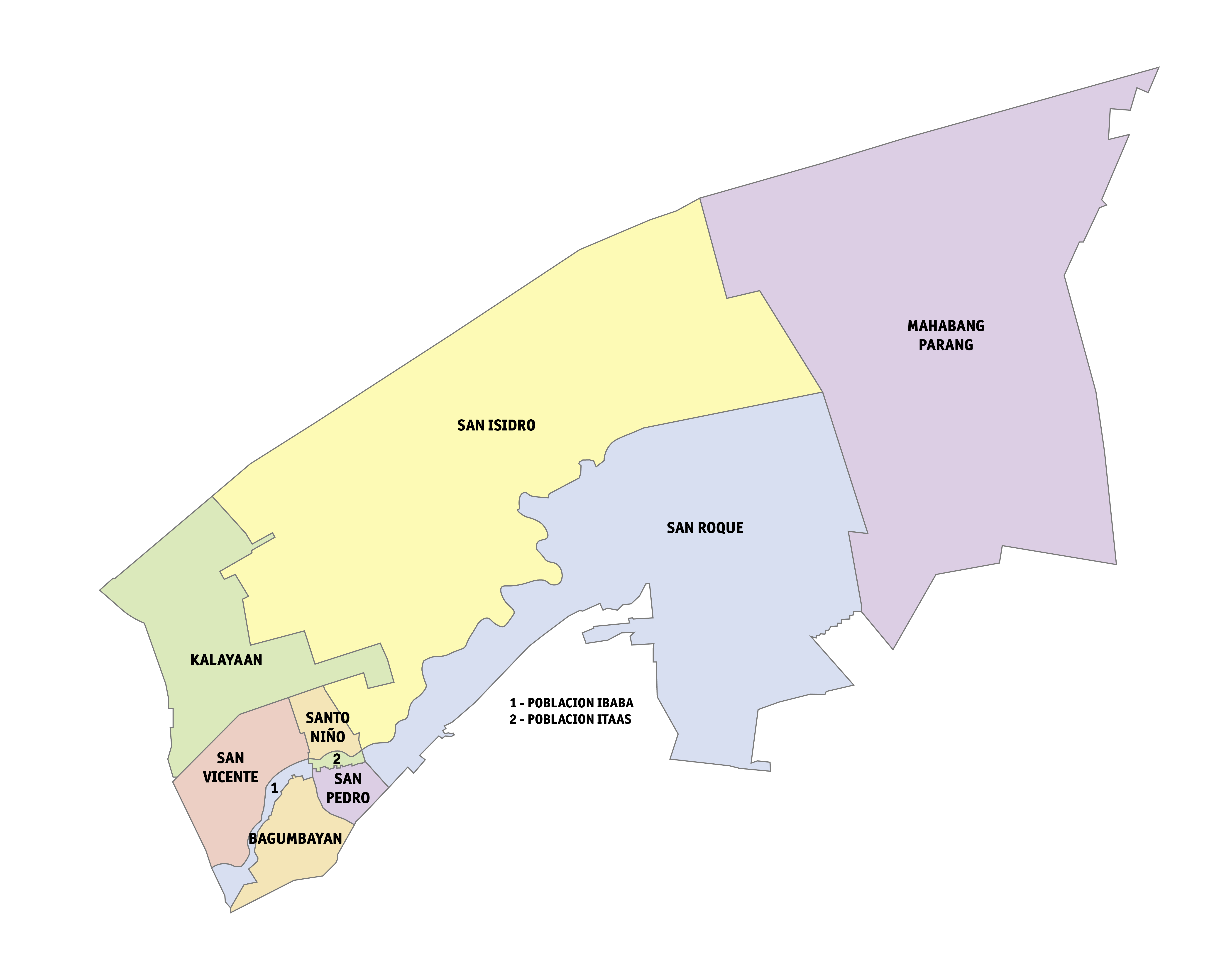 Po0iltical map of Angono, Rizal